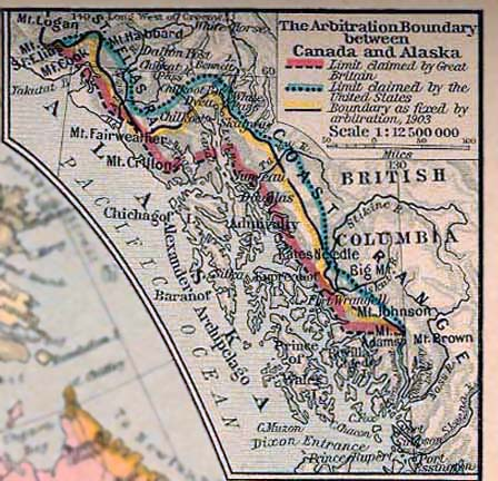 Map of Alaska-Canada boundary arbitration (1903).Cropped and enhanced version part of original image at the Perry-Castañeda Library Map Collection at the University of Texas at Austin website: This is a scan from "Historical Atlas" by William R. Shepherd, New York, Henry Holt and Company, 1926 ed. From the FAQ @ Most of the maps scanned by the University of Texas Libraries and served from this web site are in the public domain. No permissions are needed to copy them. You may download them and use them as you wish. A few maps are copyrighted, and are clearly marked as such. Any that are copyrighted by The University of Texas are subject to our Materials Usage Guidelines. This map is not so marked.